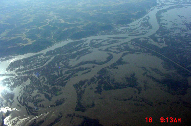 Aerial photo of the mouth of the Upper Iowa River at floodstage, January 18, 2001, looking approximately west.